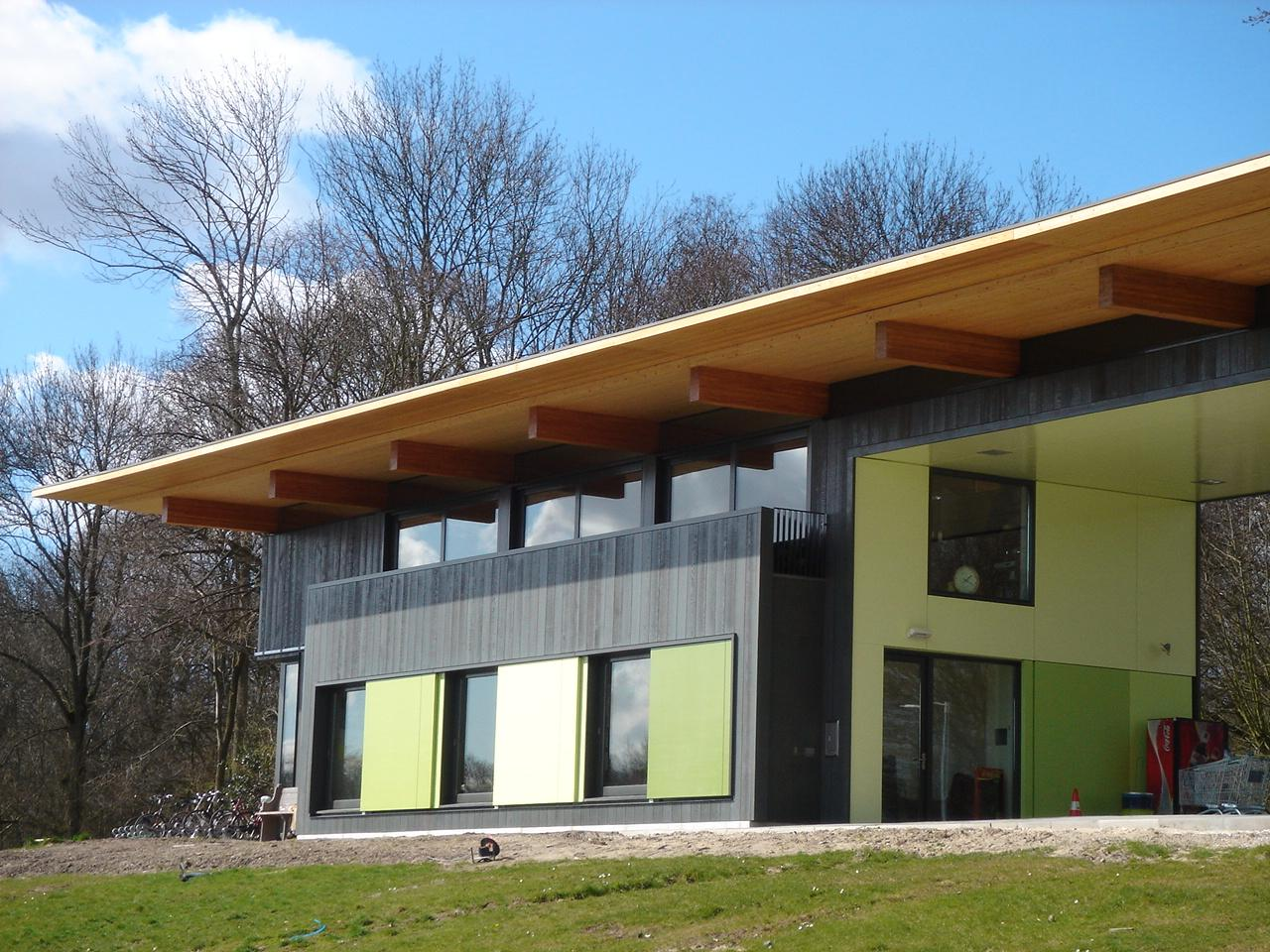 Foto van de sociëteit van Okeanos